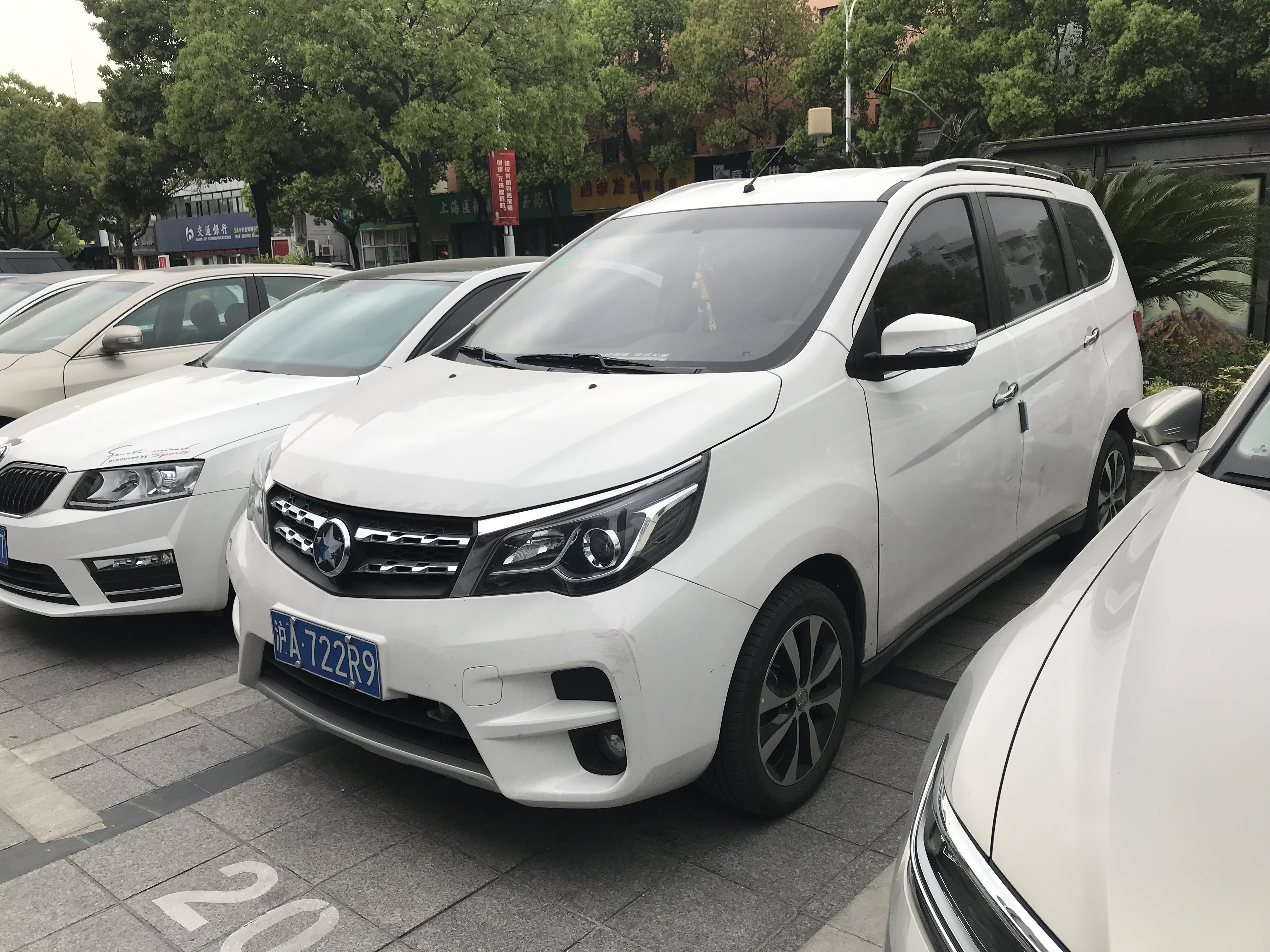 Venucia M50V